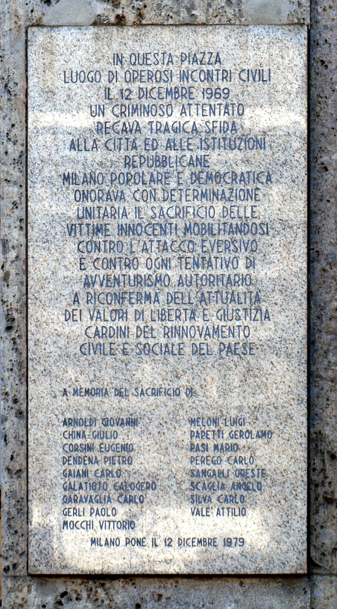 Piazza Fontana, Milan: plaque in memory of the 17 victims of the terrorist bombing in Piazza Fontana, on December 12, 1969. The plaque was placed on the decennal of the event on the outer wall of the "Banca Nazionale dell'Agricoltura" building, inside of which the attack was carried out. (Picture taken on December 12, 2007).